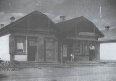 Torchyn